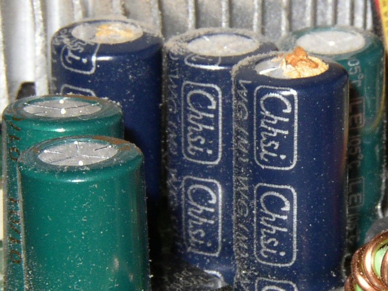 Failed capacitors on a MSI 694D Pro motherboard.